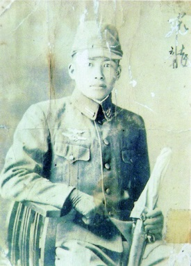 Second Lieutenant Kawada (Kiyoharu), born as Roh Yong-U